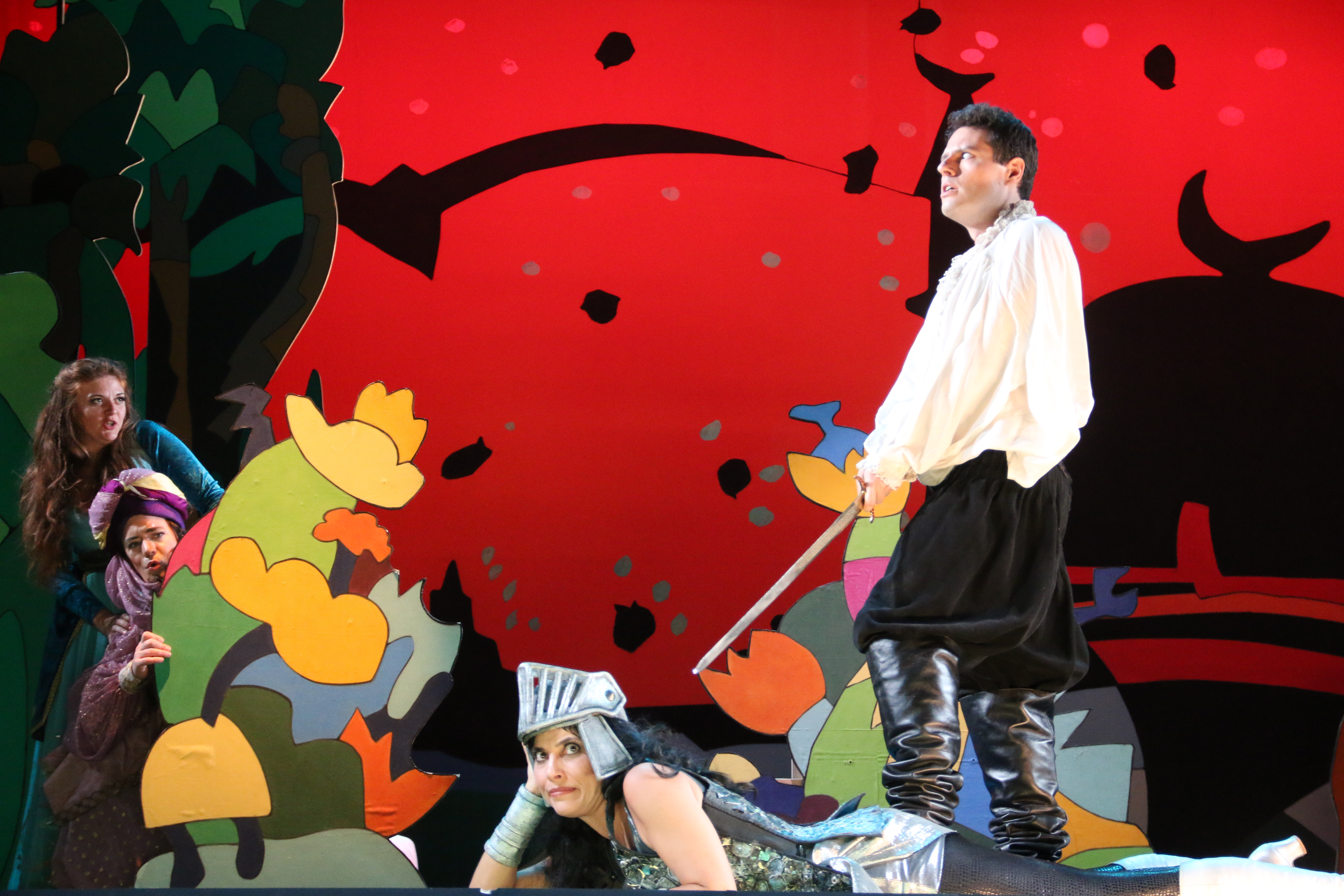 Delio molests Queen Veremonda to the amazement of Queen Zelemina and Zaida. Interpreted by Vivica Genaux, Francesca Lombardi Mazzulli, Raffaele Pe and Michael Maniaci for Spoleto Festival USA 2015